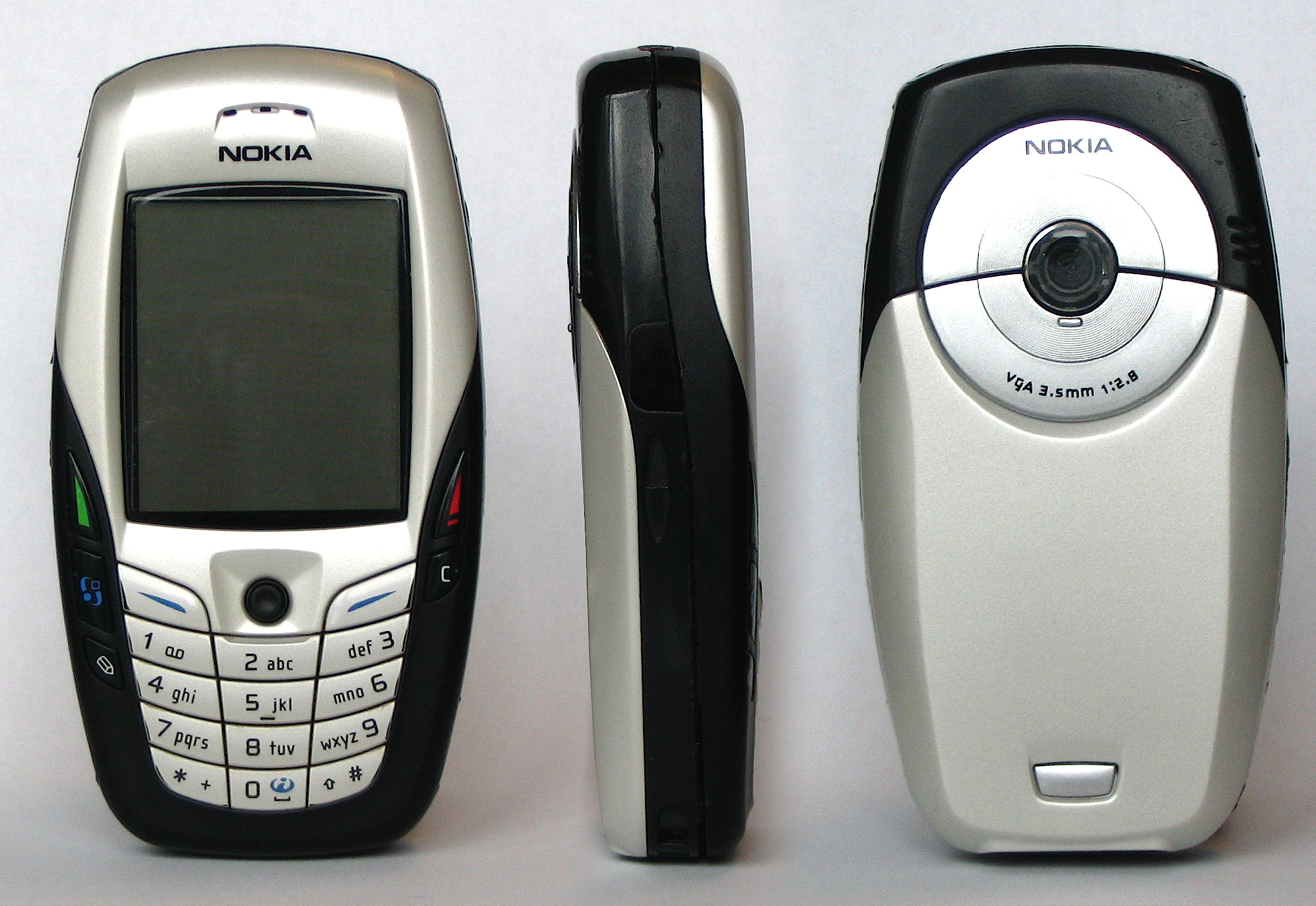 This is a photo of my Nokia 6600 from front, side and back, that I have taken and edited myself. I reserve no rights for the image.